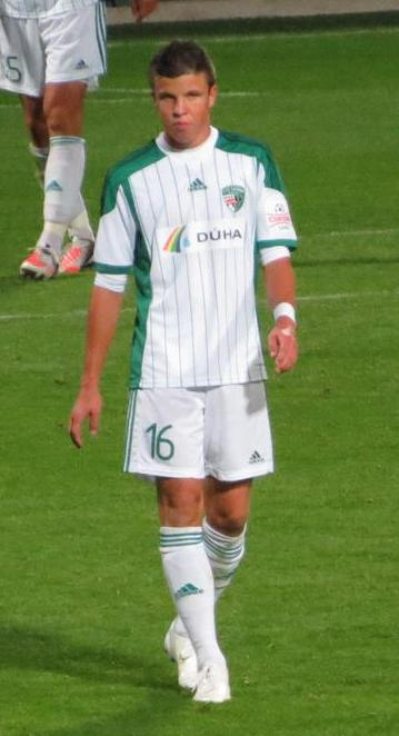 Photo - Slovak footballer Matúš Marcin